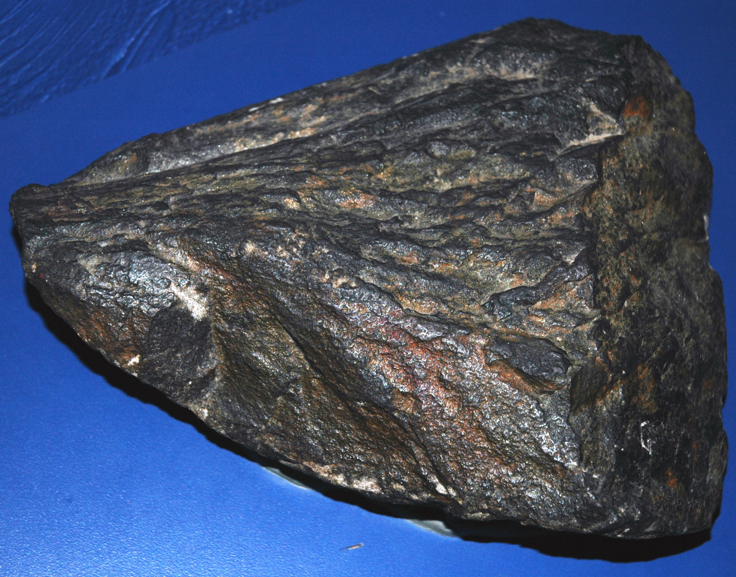 Shattercone in rock from the 1.85 billion year-old Sudbury Impact Structure in Ontario, Canada. Shattercones are features developed in rocks by a powerful shock wave or pressure front moving through during an impact event. They have a three-dimensional cone-like structure, with the points of the cones directed toward the shock wave origination site. Undisturbed shatterconed rocks will have their cones pointing upward (toward space). (CMNH, Cleveland Museum of Natural History, Cleveland, Ohio, USA)